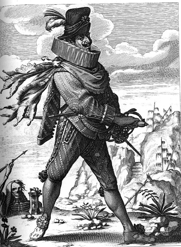 The commedia del'arte figure of the Spanish Captain.